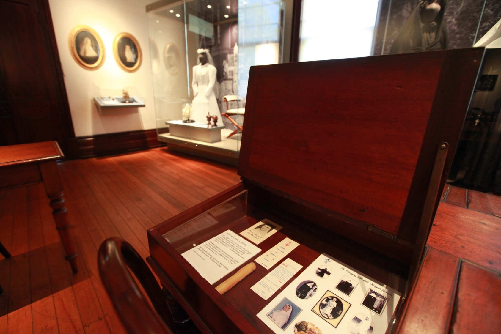 Exhibition at Mercy Heritage Centre Brisbane